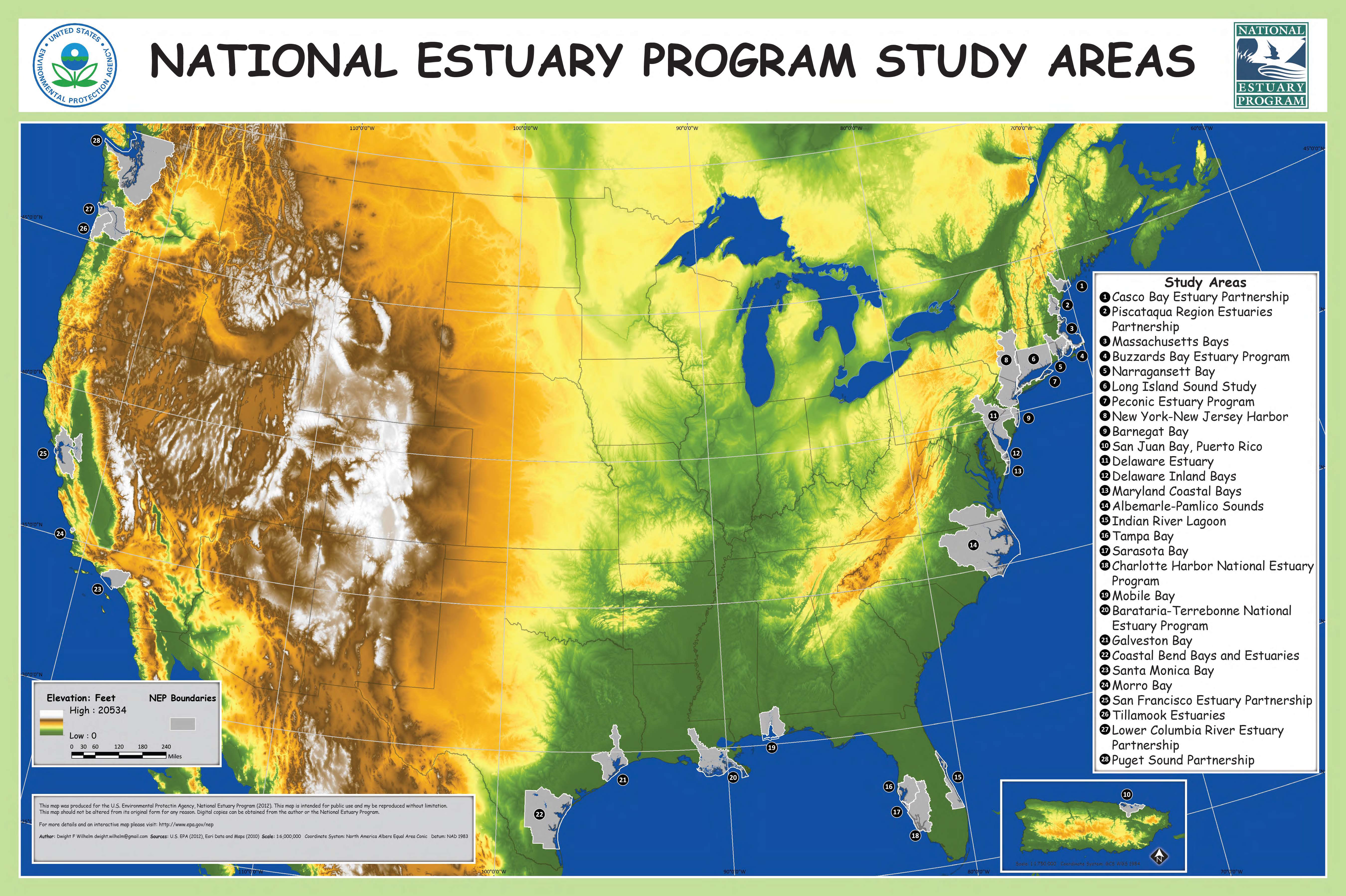 Map of 28 local study areas in the U.S. National Estuary Program.